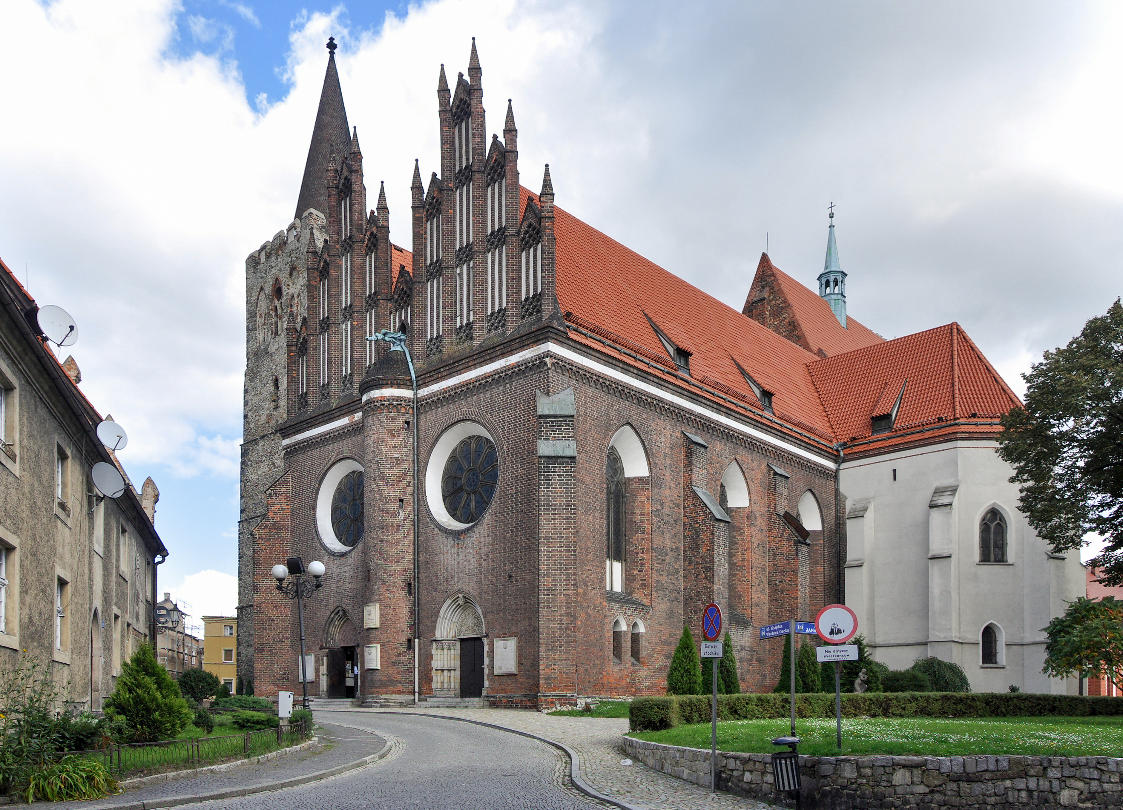 Saint George church in Ziębice